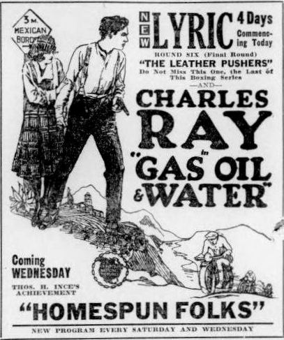 Newspaper advertisement for the American comedy mystery film Gas, Oil and Water (1922) with Charles Ray, on page 4 of the June 3, 1922 Duluth Herald.